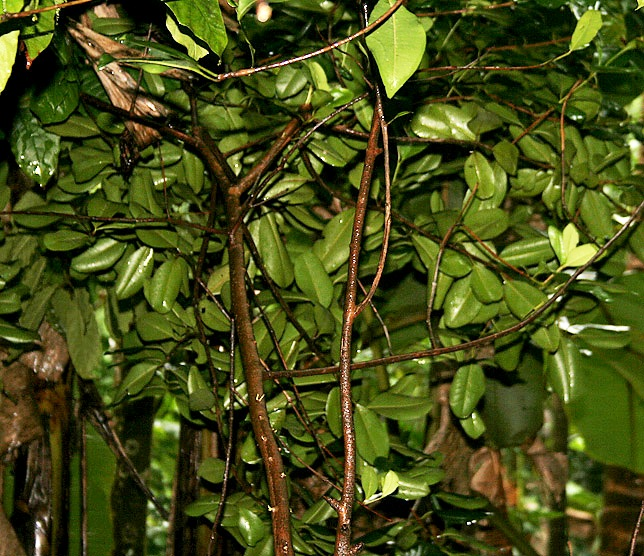 Pimenta dioica- Allspice, Jamaica pepper,"Kurundu" Myrtle pepper, pimento, newspice- in Goa, India.